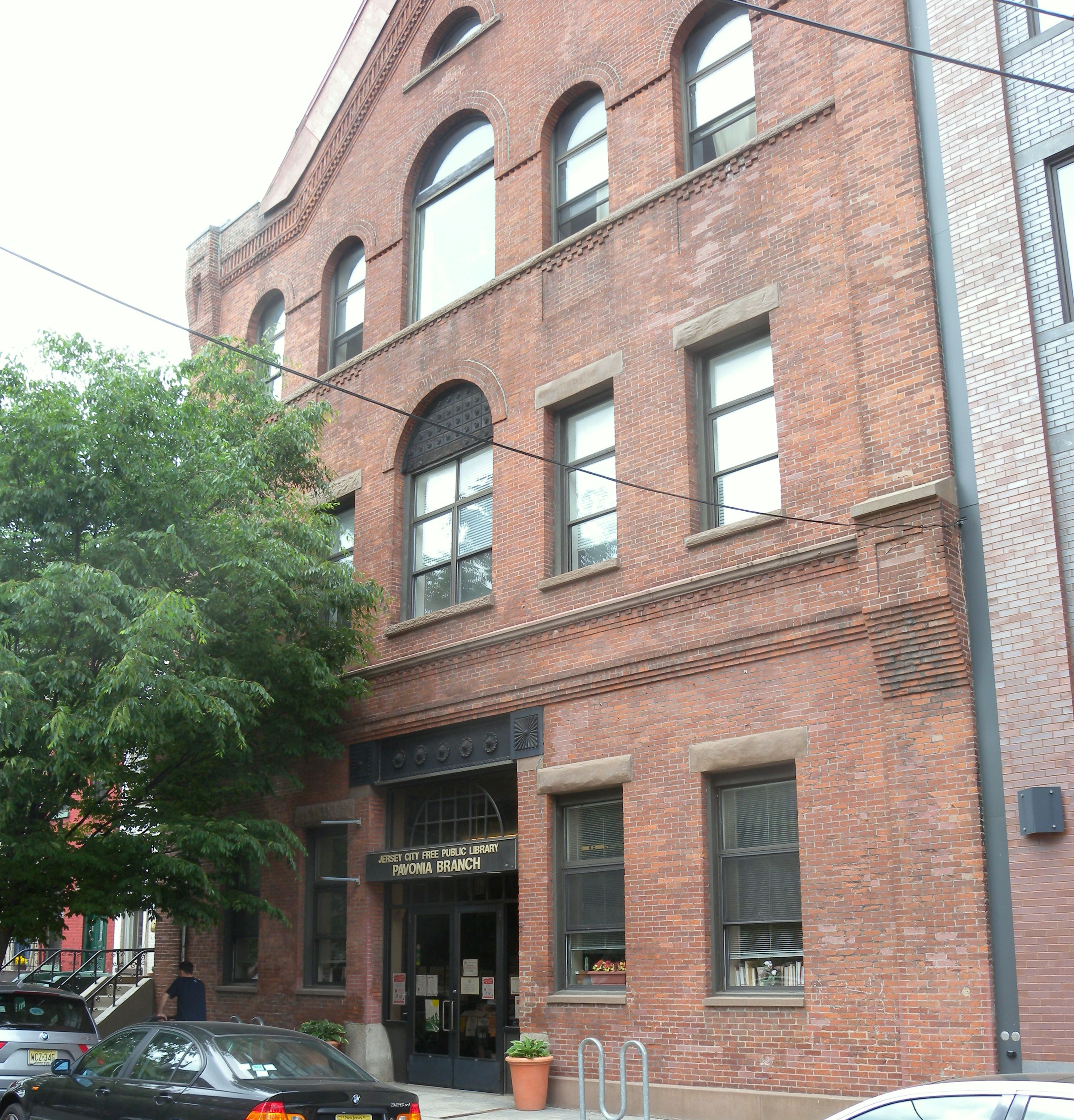 Looking north at Pavonia Branch, JC Free Public Library on a cloudy afternoon. Google Earth Street View in former years mistakenly showed a picture of JFK Boulevard.